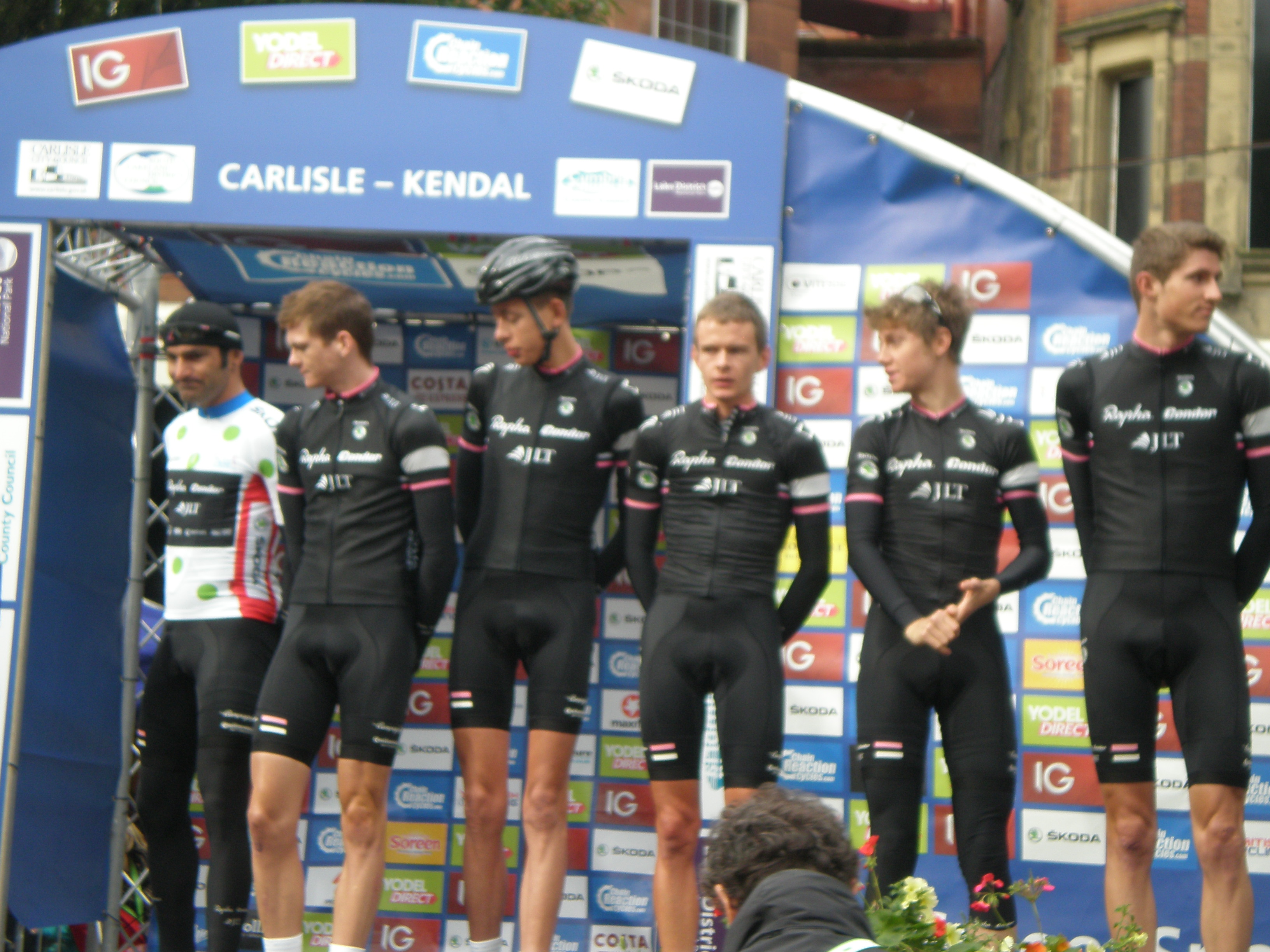 Stage 2 - Carlisle to Kendal, 16 September 2013